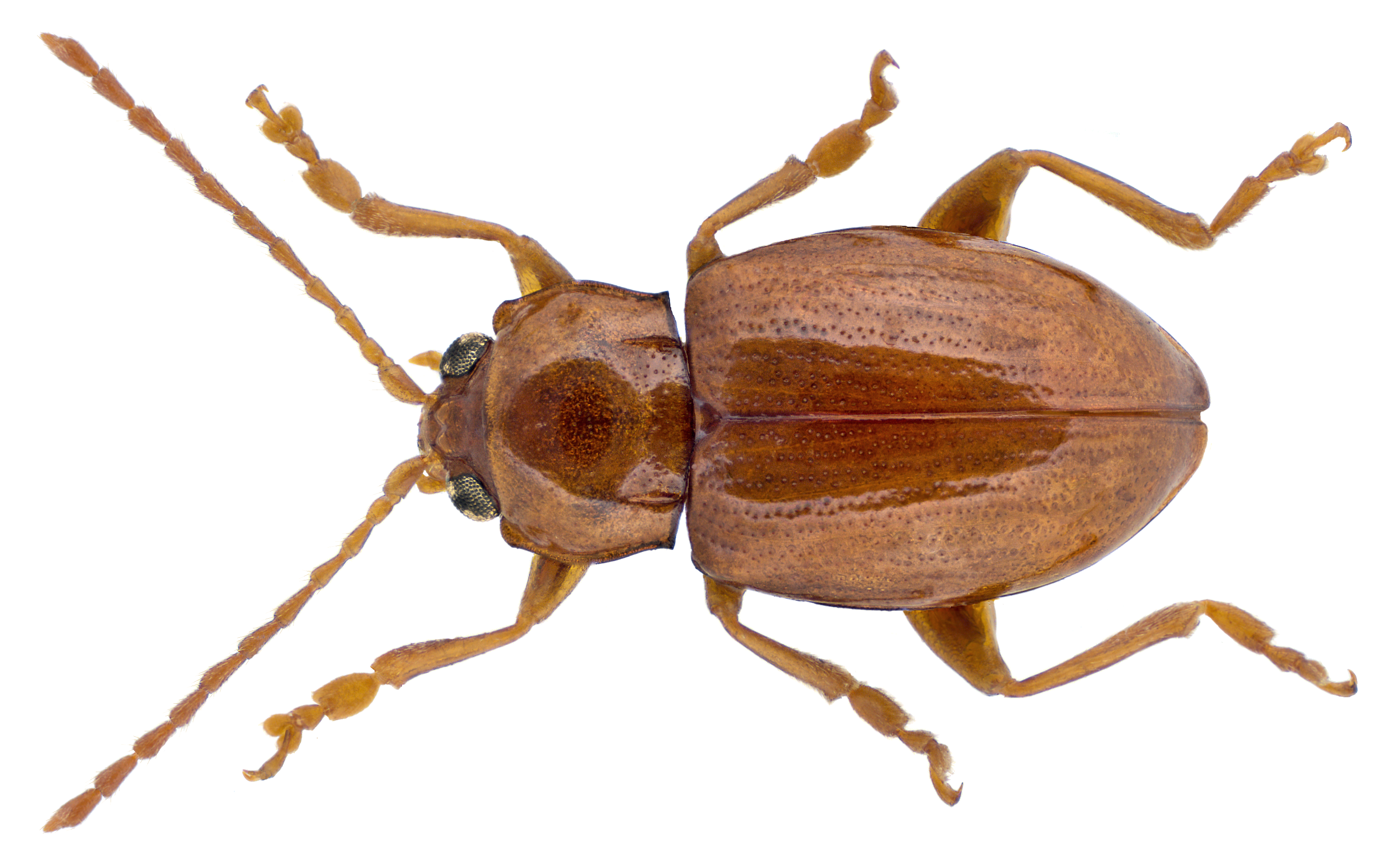 Family: Chrysomelidae Size: 4,1 mm Origin: Southern Central Europe Location: Austria, Kaernten, Ferlach, rarely leg.det. U.Schmidt, 14.IX.1982 Photo: U.Schmidt, 2015